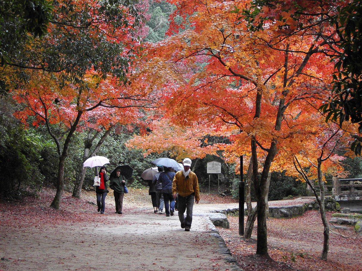 Maple leaf autumn colours on Miyajima Island, near Horishima Japan